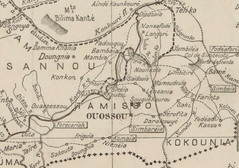 Mapa de Tamisso